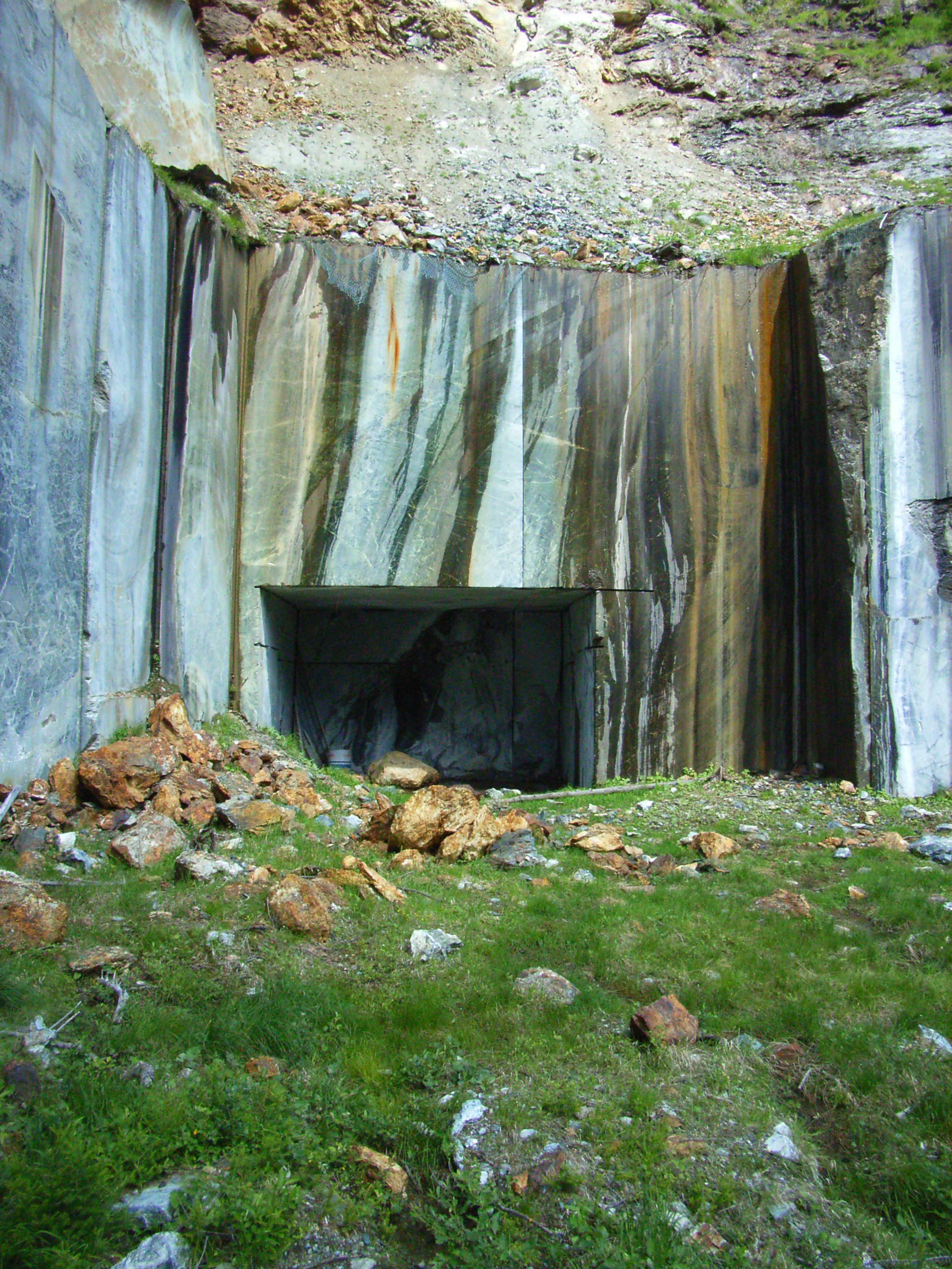 serpentinite quarry Cimpano of Val Gressoney (Aoste Region, Italy)